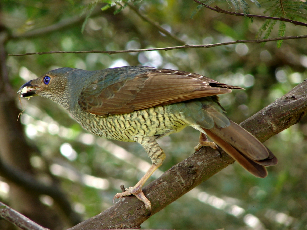 A female Satin Bowerbird in Bunya Mountains National Park, Queensland, Australia.